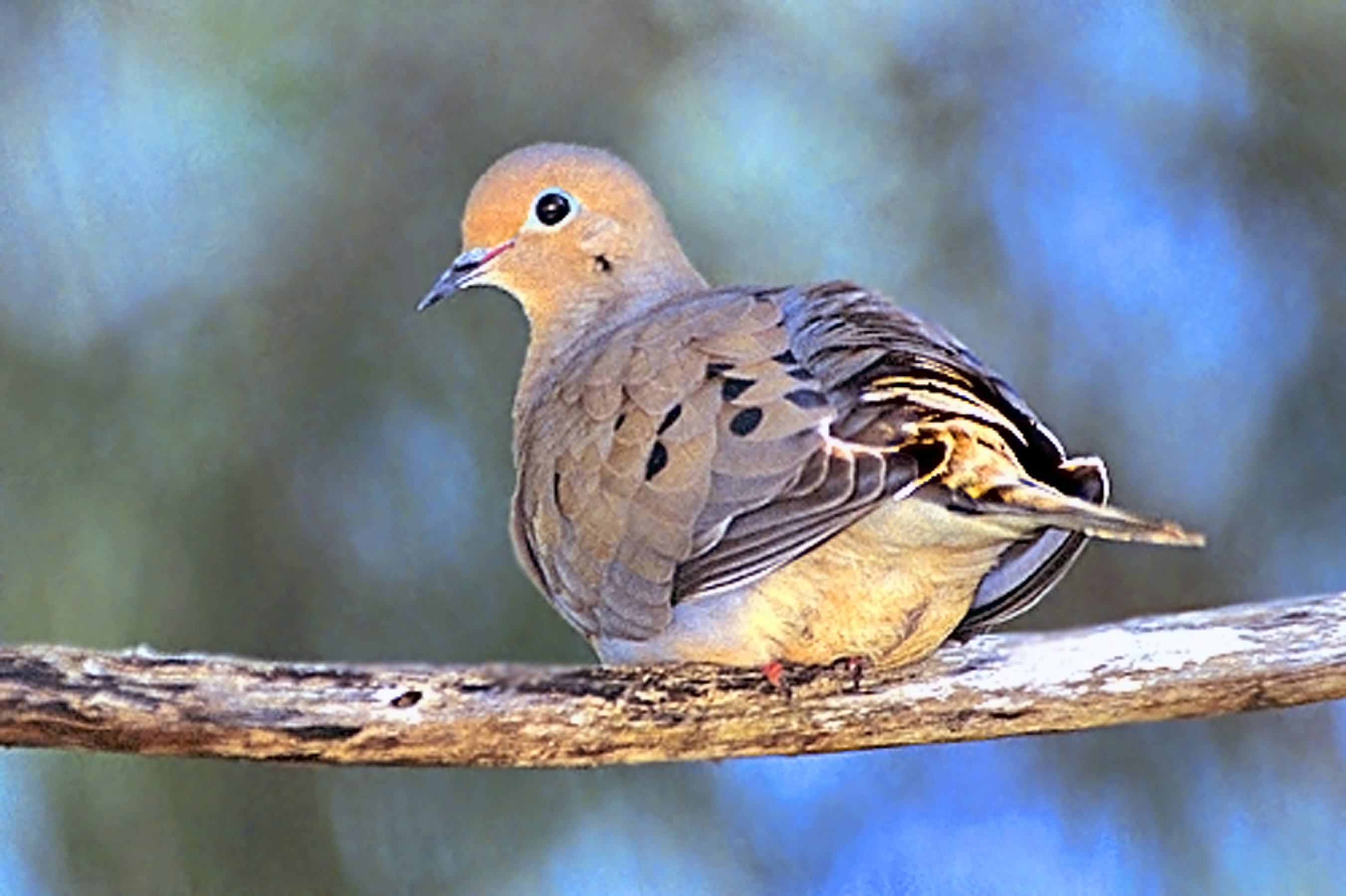 Mourning Doves will perch for safety but eat on the ground.